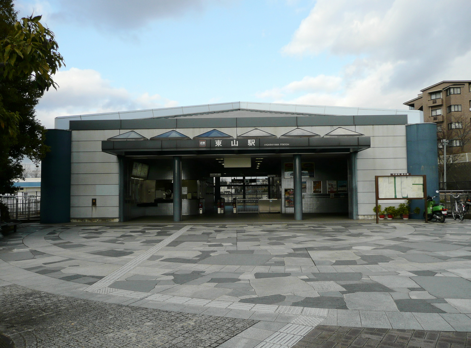 Kinki Nippon Railway,Ikoma Line,Higashiyama Station.